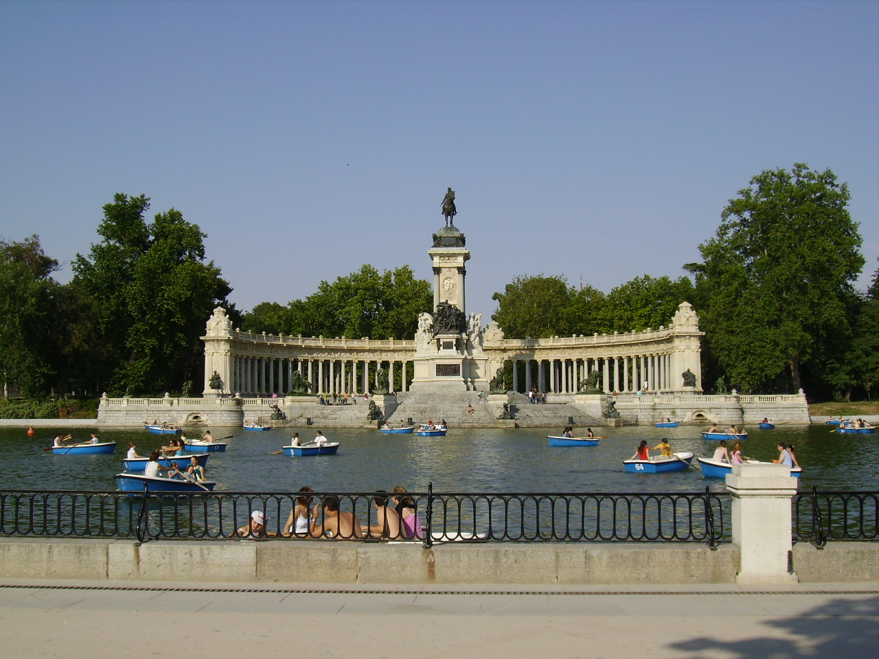 Monument to Alfonso XII of Spain, Retiro Park (Jardines del Buen Retiro), Madrid.